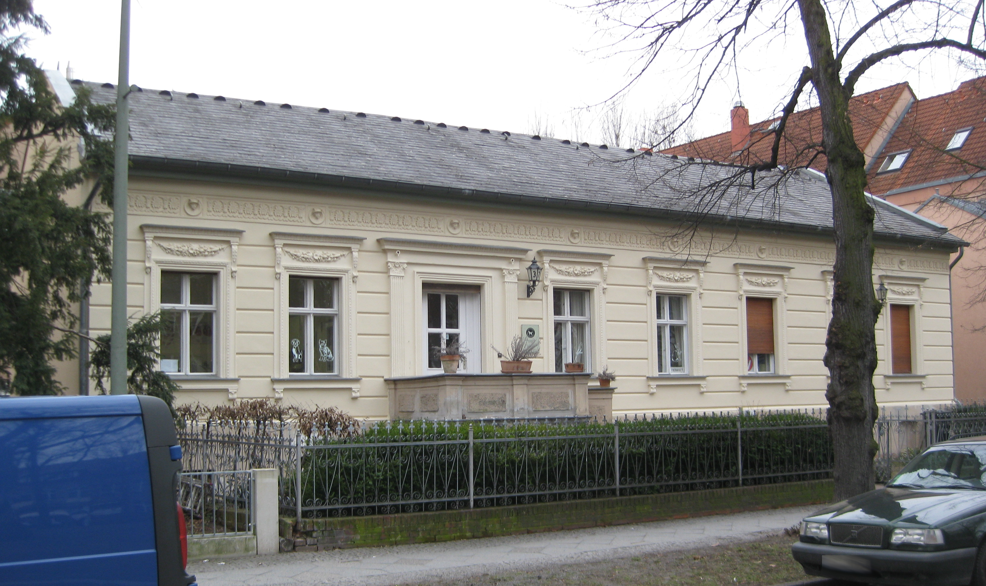 The side farmstead of the Bauernhof Großkopf, Alt-Reinickendorf 37.